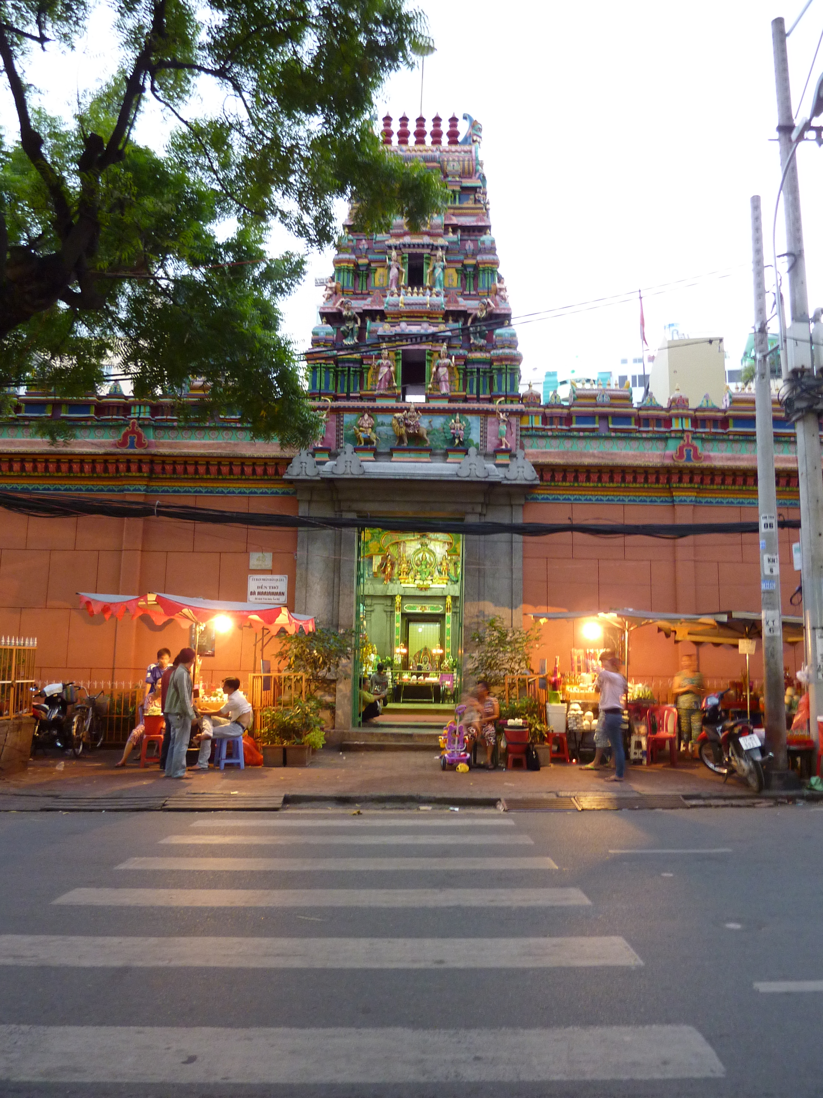 hindu temple in ho chi minh city